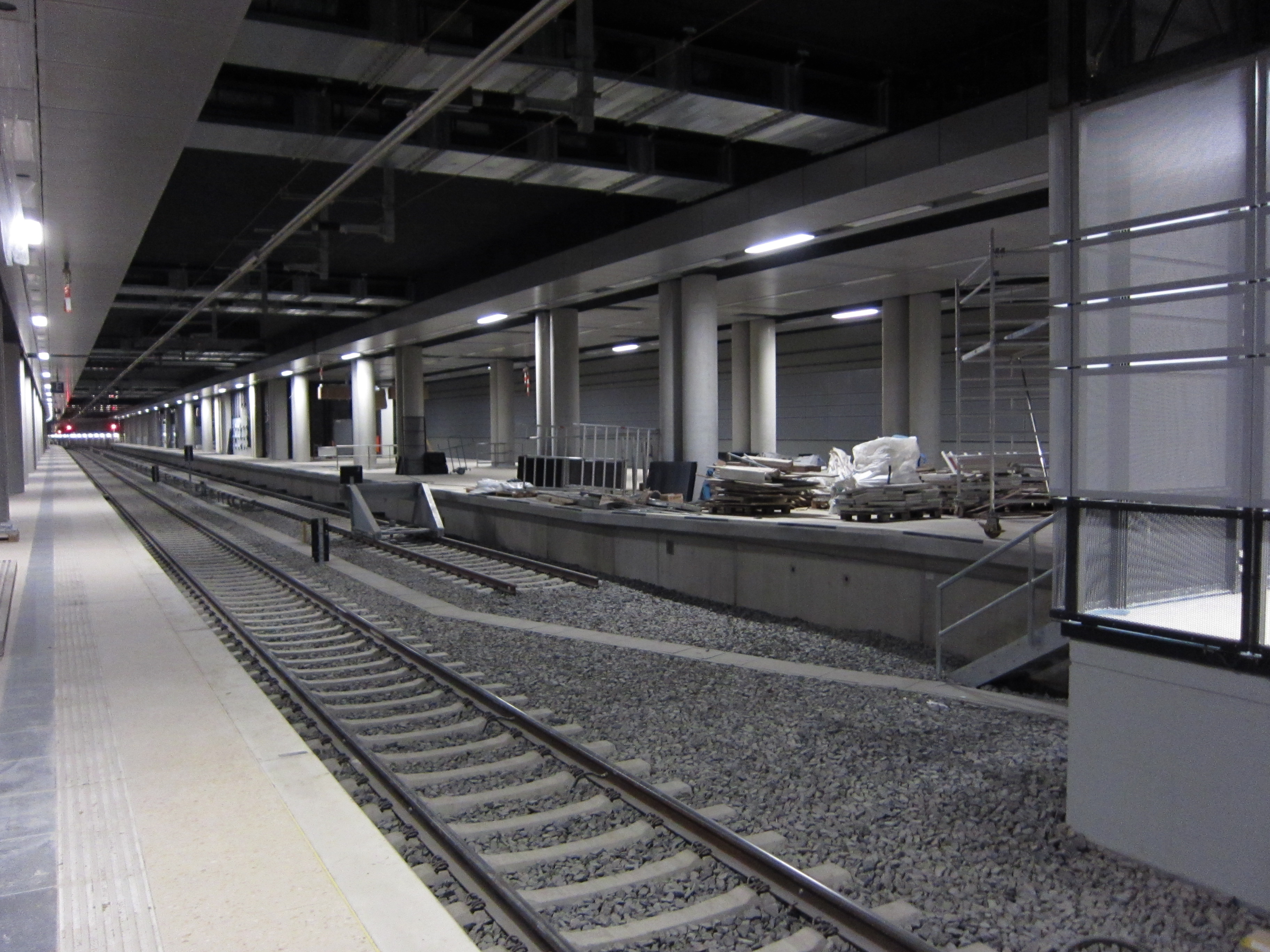 Airport Berlin Brandenburg station with tracks 4 to 6 and the platform of S-Bahn Berlin.